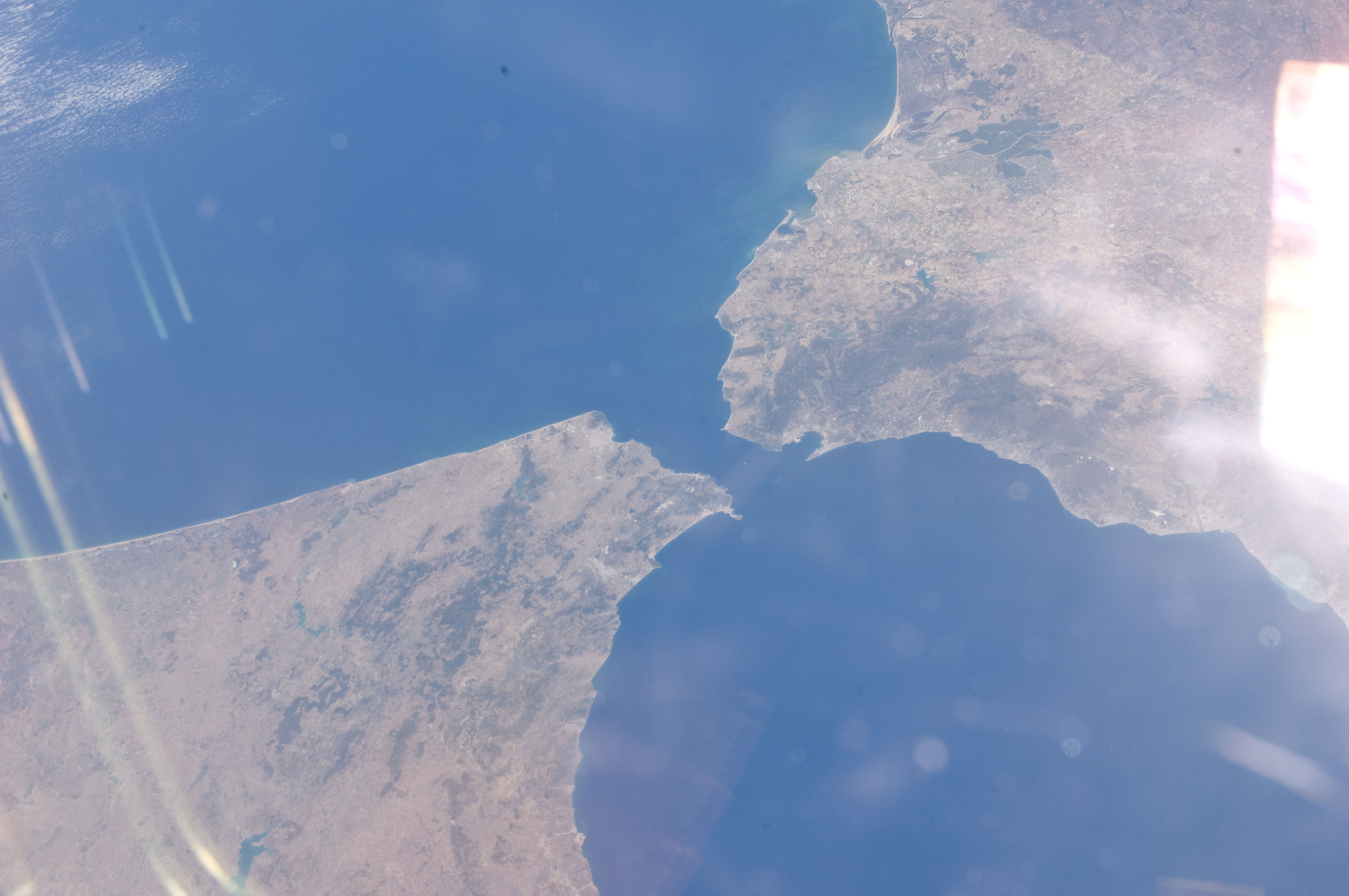 Satellite pictures of Gibraltar strait